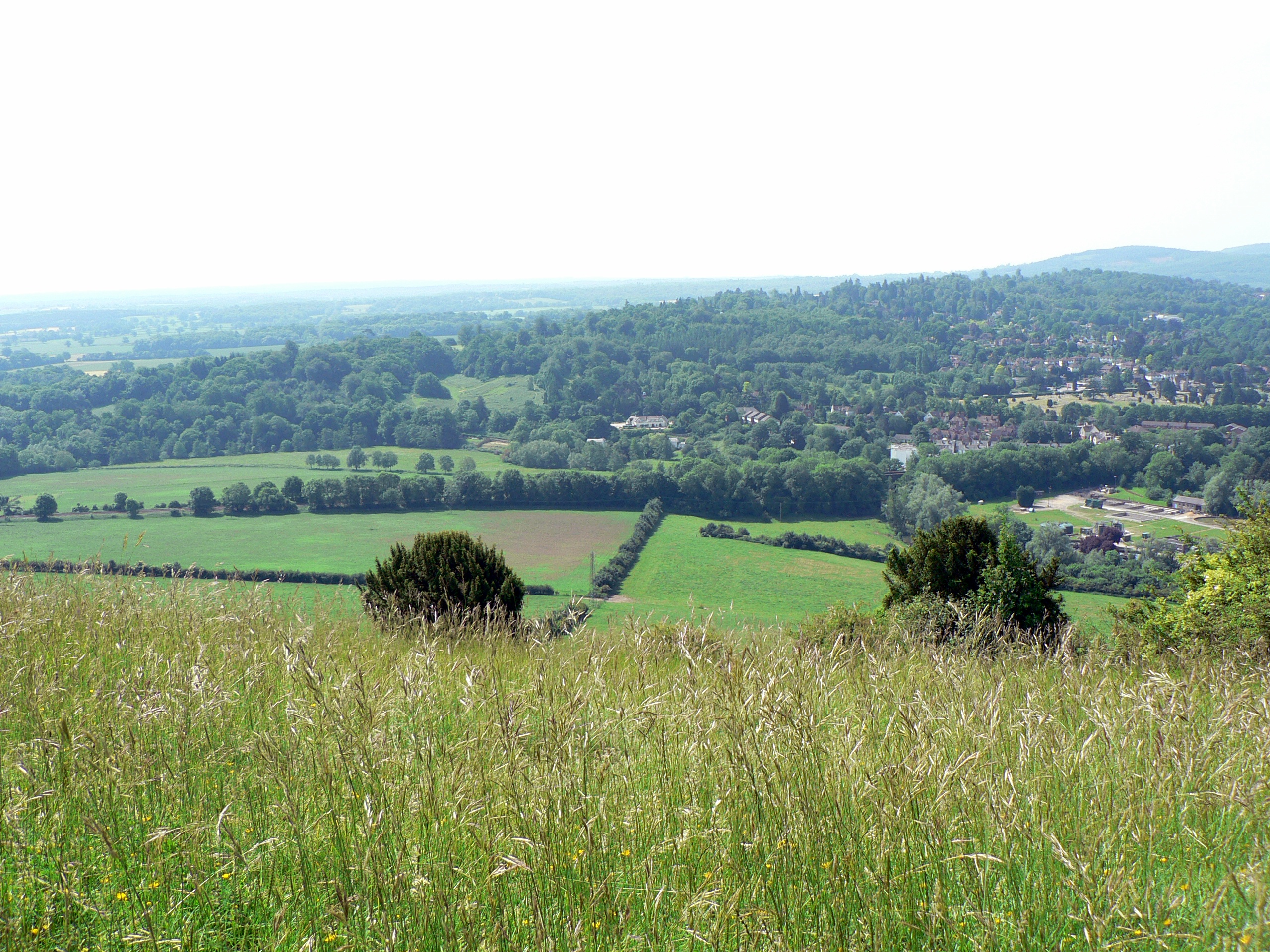 Photograph showing a view from the summit of Box Hill, Surrey, UK